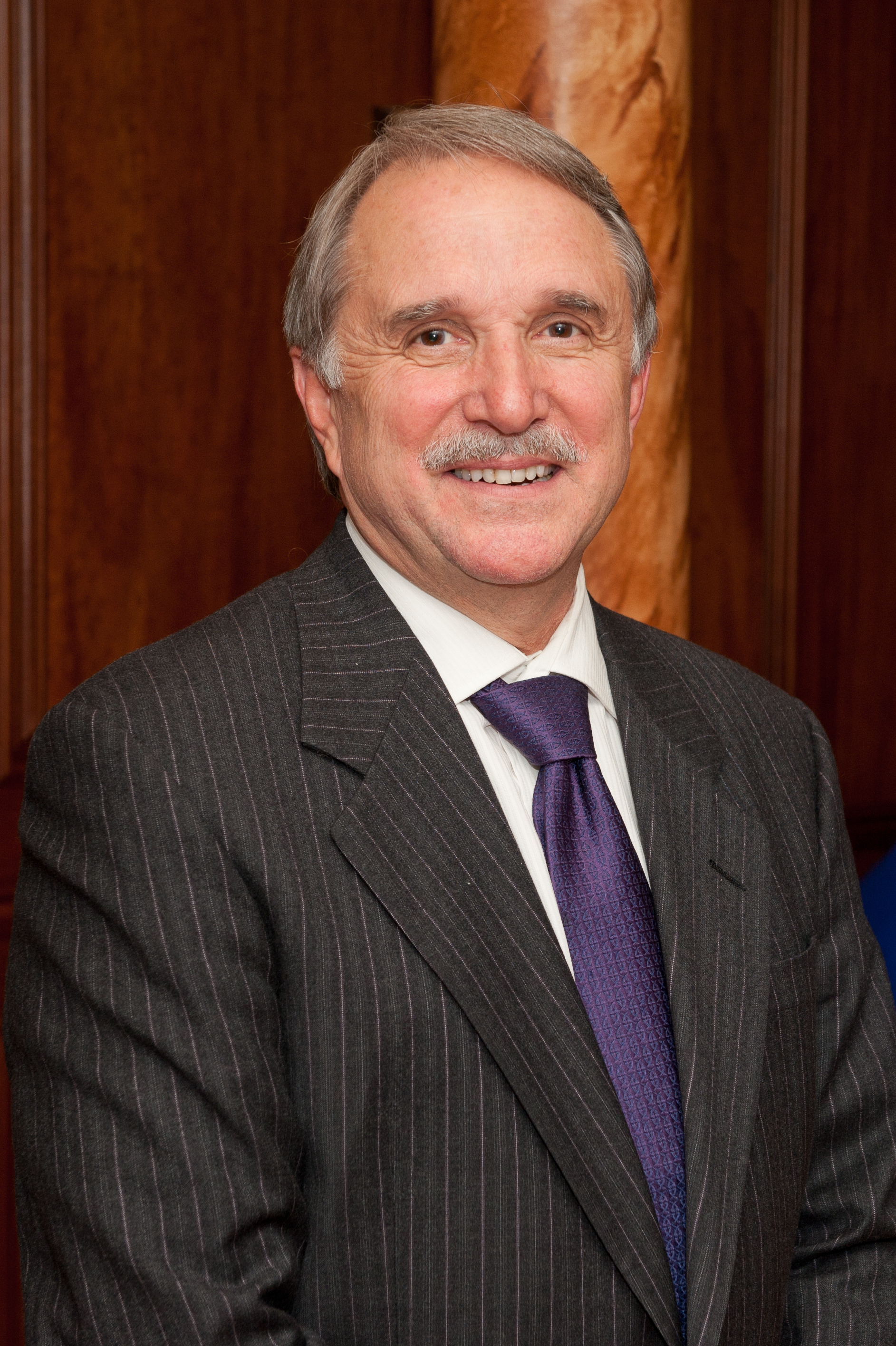 President Michael Scales of Nyack College